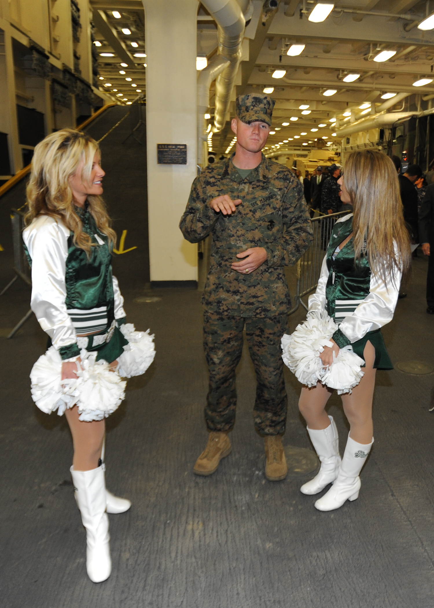 NEW YORK, (Nov. 03, 2009) A Marine speaks with New York Jets cheerleaders aboard the amphibious transport dock ship Pre-commissioning Unit (PCU) New York (LPD 21). New York is New York is pierside in New York and will be commissioned Nov. 7. (U.S. Navy photo by Mass Communication Specialist 1st class Corey Lewis/Released)